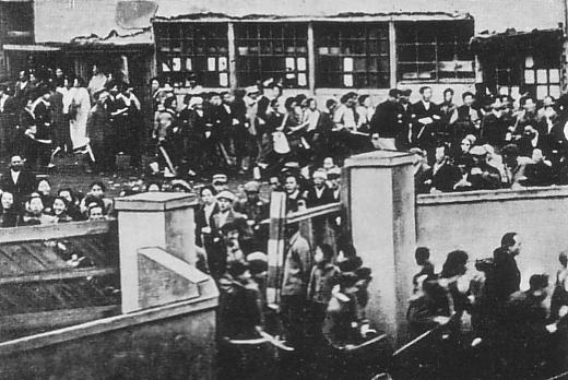 Second Kobe Incident